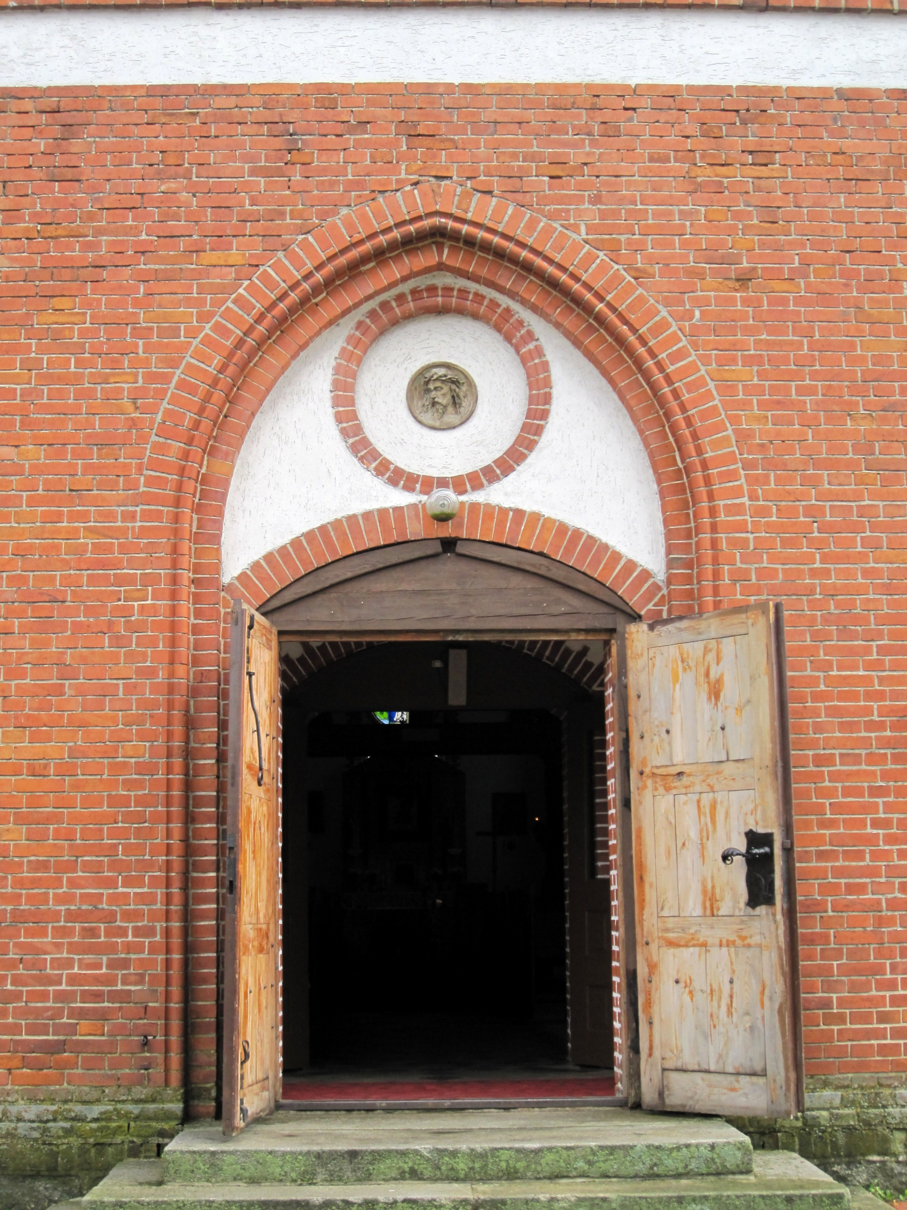 Church of Saint Adalbert in Nowy Dwór